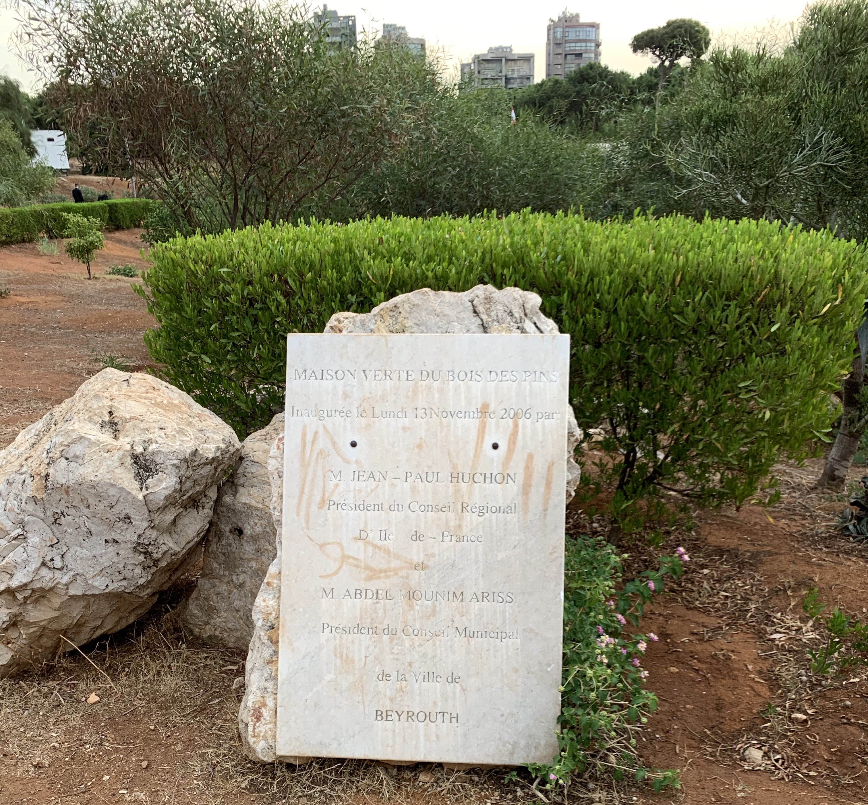 National Museum of Beirut – Horsh Beirut